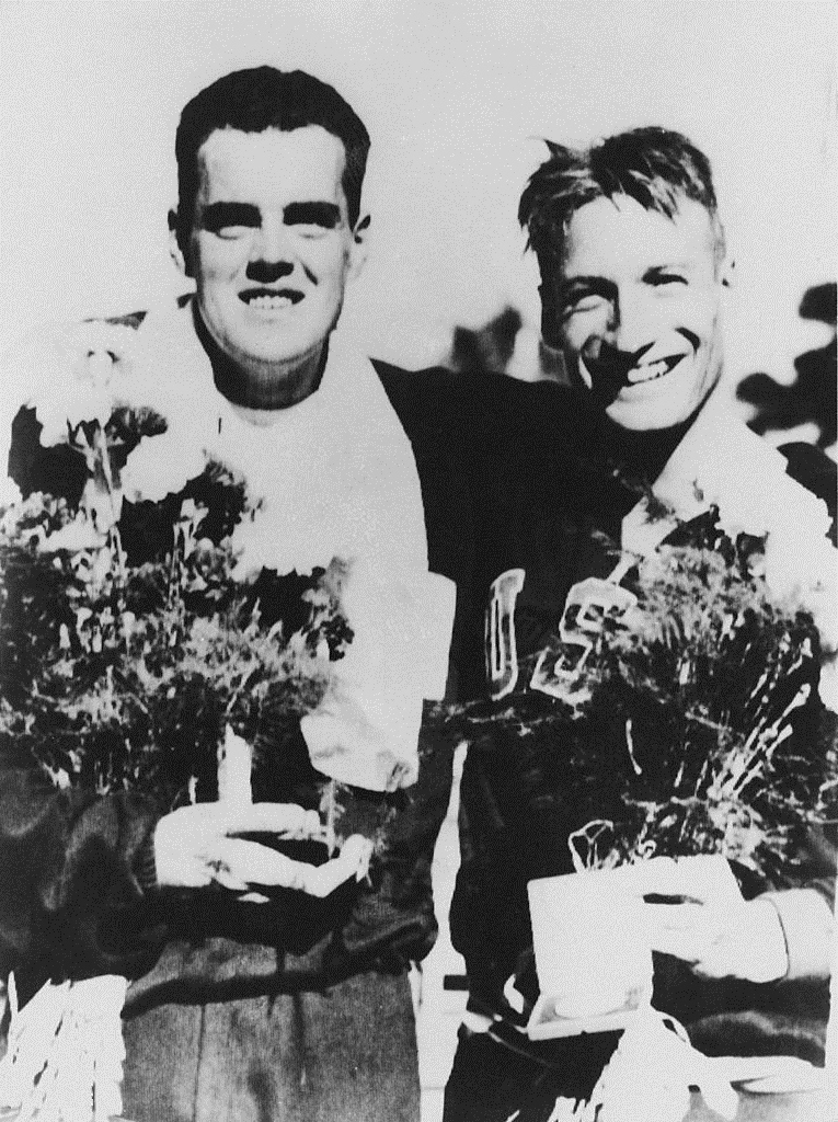 1952 Press Photo John Davies and Bowen D. Stassforth with Swimming Awards